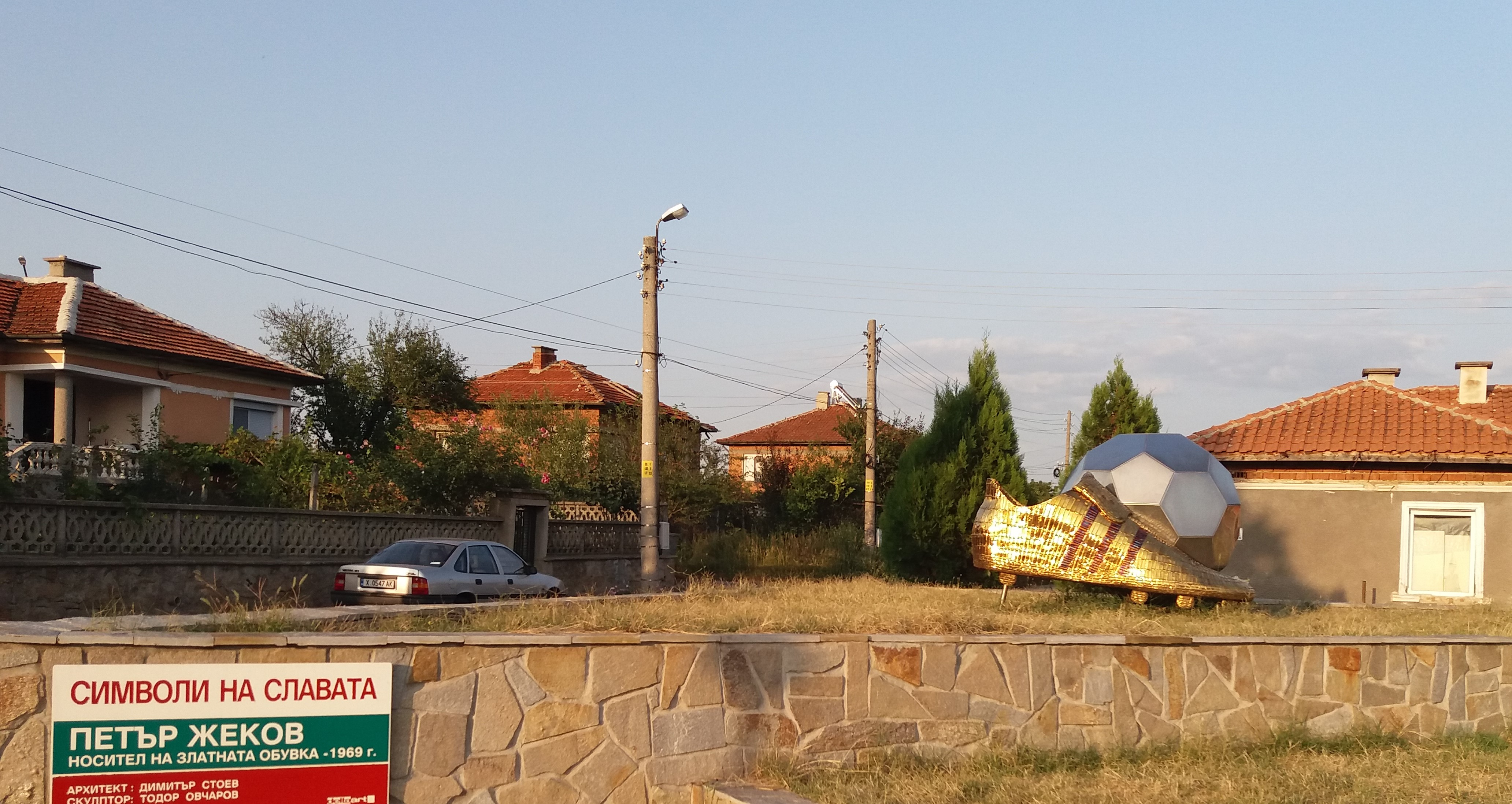 Knizhovnik Haskovo region, Bulgaria